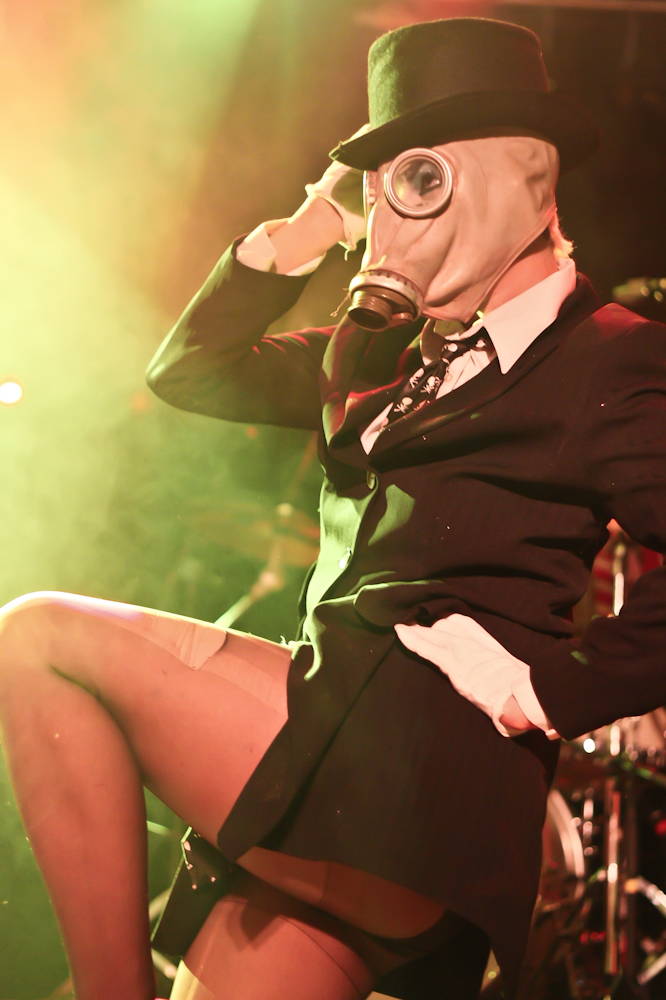 Bonaparte (band)